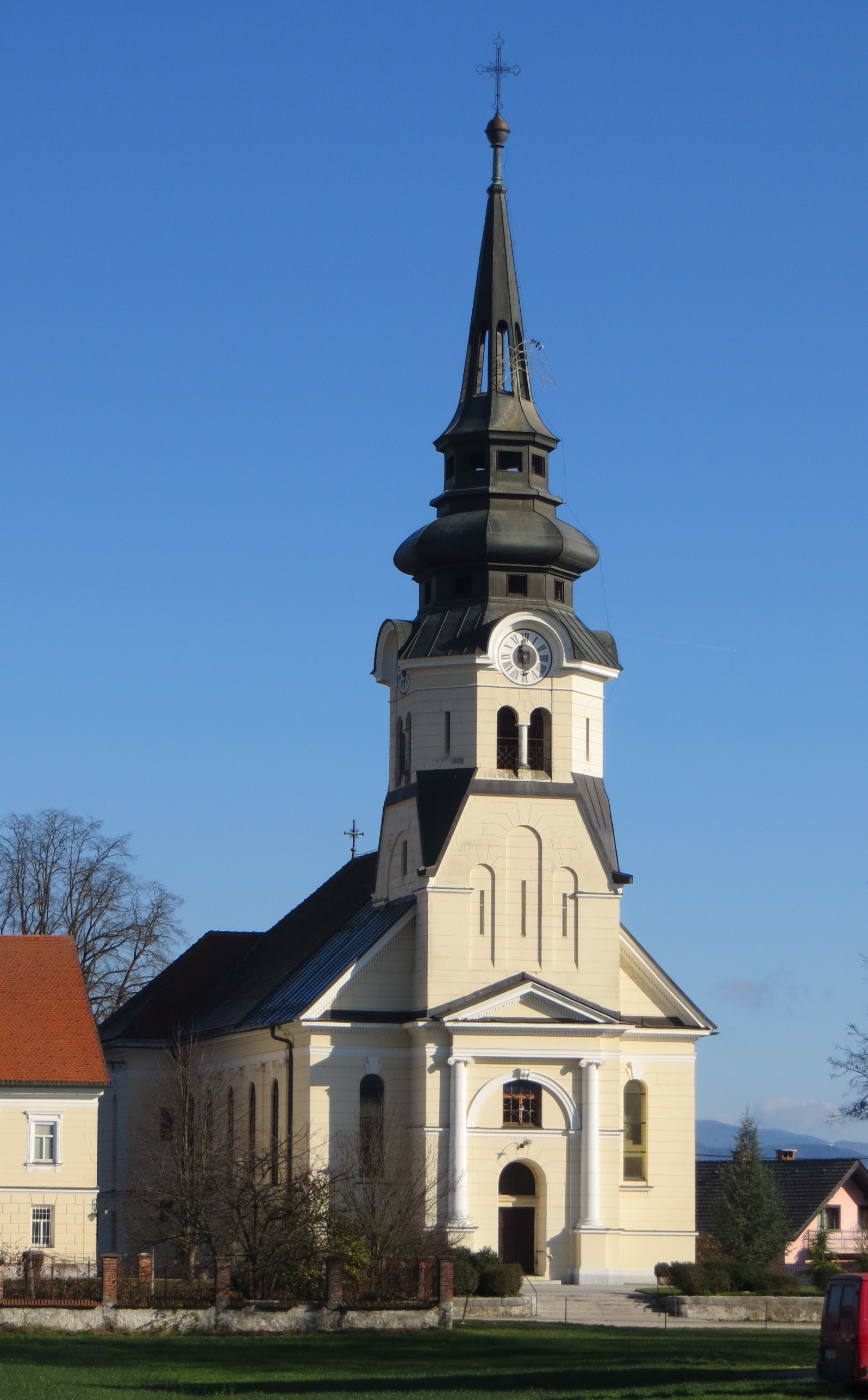 Saint Margaret's Church in Vodice, Municipality of Vodice, Slovenia